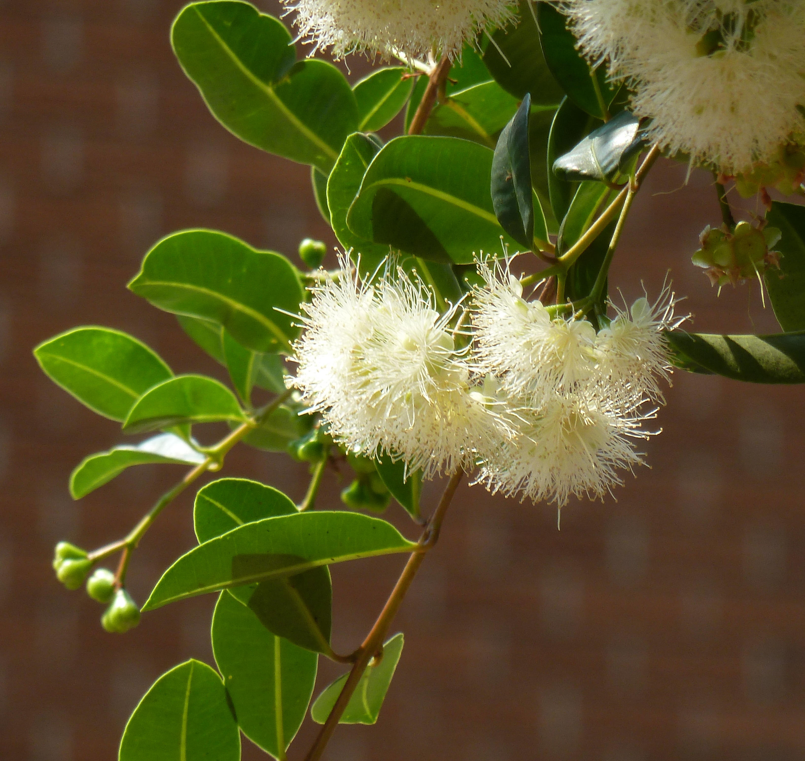 Inflorescences of Australian water-pear at the University of Pretoria